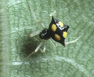 female Theridula gonygaster from Okinawa.